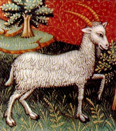 Capricorn symbol, c. 1440-1450 Book of Hours, the Fastolf Master, Bodleian Library, Oxford C.160. MS. Auct. D. inf.2, 11, fol 12r